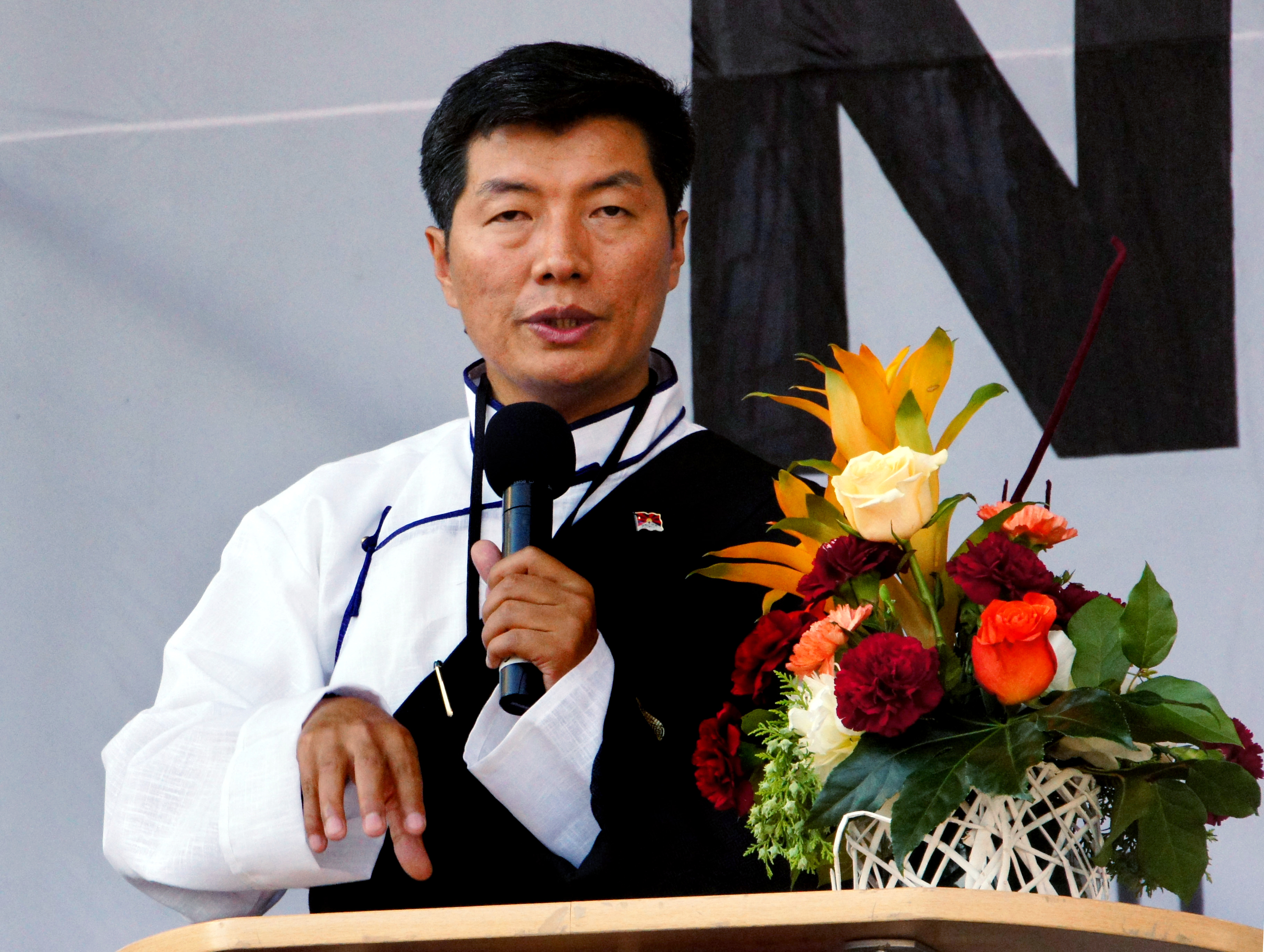 Lobsang Sangay 洛桑·桑盖 in Heldenplatz, Vienna, Austria, on occasion of "European Solidarity Rally for Tibet". This person is, as of 2012, and since 2011-04-27, the democratically elected prime minister of Tibet's government in exile.